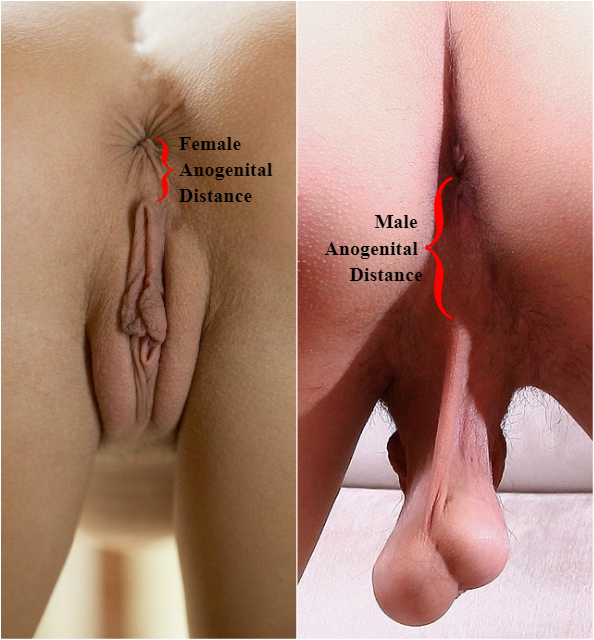 Anogenital distance of human female and male. Measured from the center of the anus to the bottom of the labia minora (the fourchette) in females or the underside of the scrotum in males.